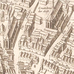 Arnold Mercator - Kreuzbrüderkloster und Umgebung 1570